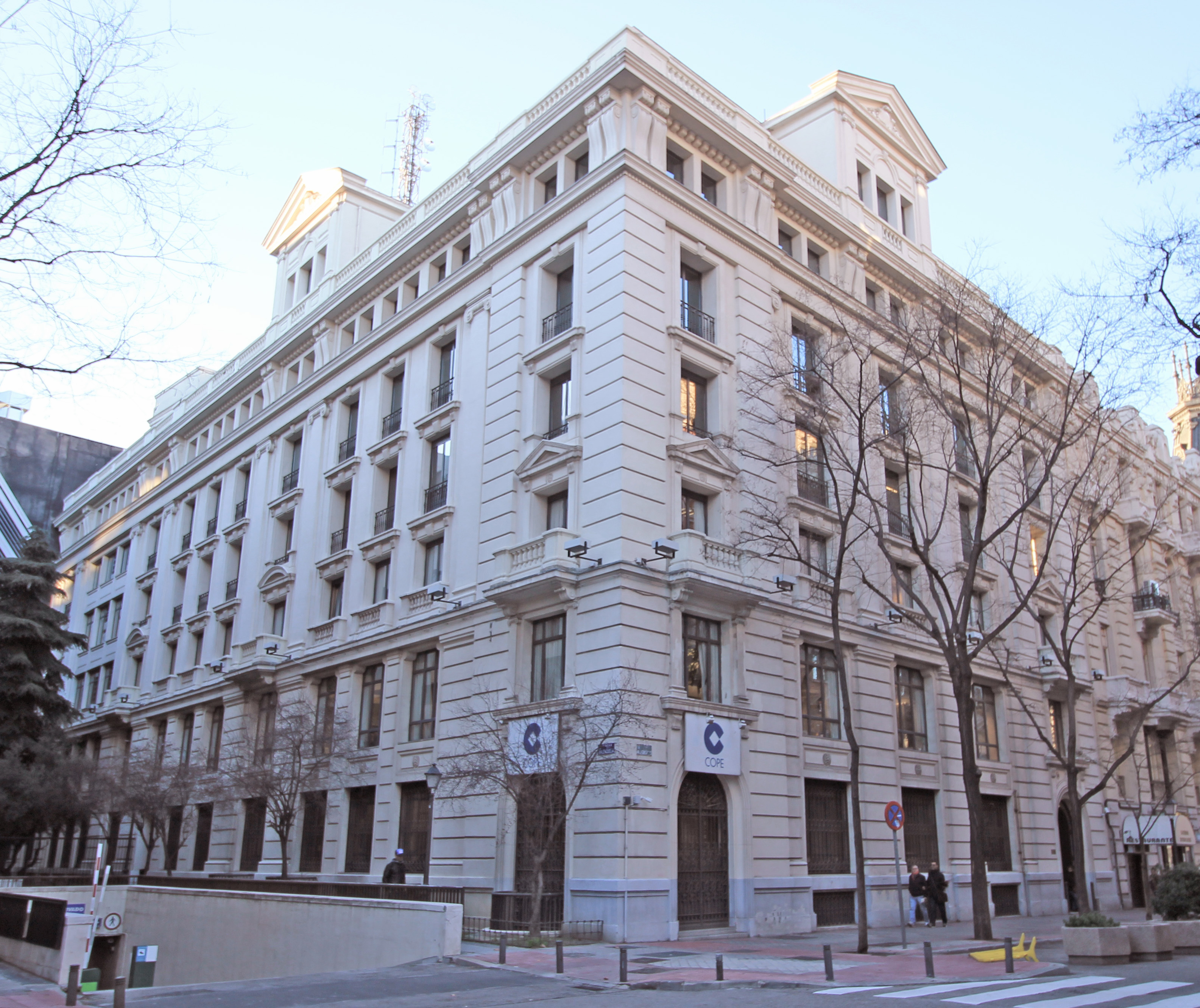 Building at 4th Calle de Alfonso XI (street) in Madrid. It is home to COPE's headquarters.